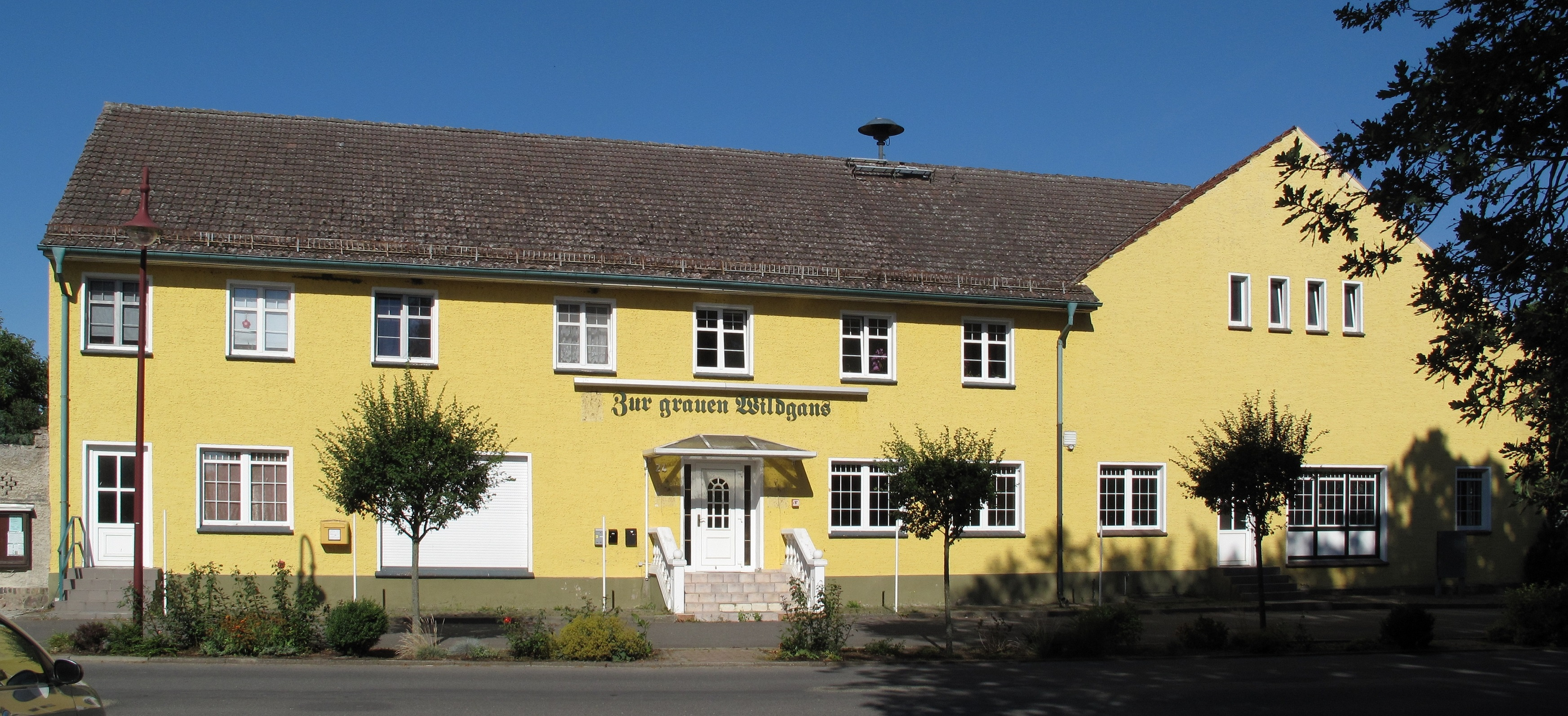 Restaurant „Zur grauen Wildgans“ at the village green in Selchow. The village Selchow is a part of the town Storkow, District Oder-Spree, Brandenburg, Germany. The village was first mentioned in 1321 and had on January 1, 2013 259 inhabitants.